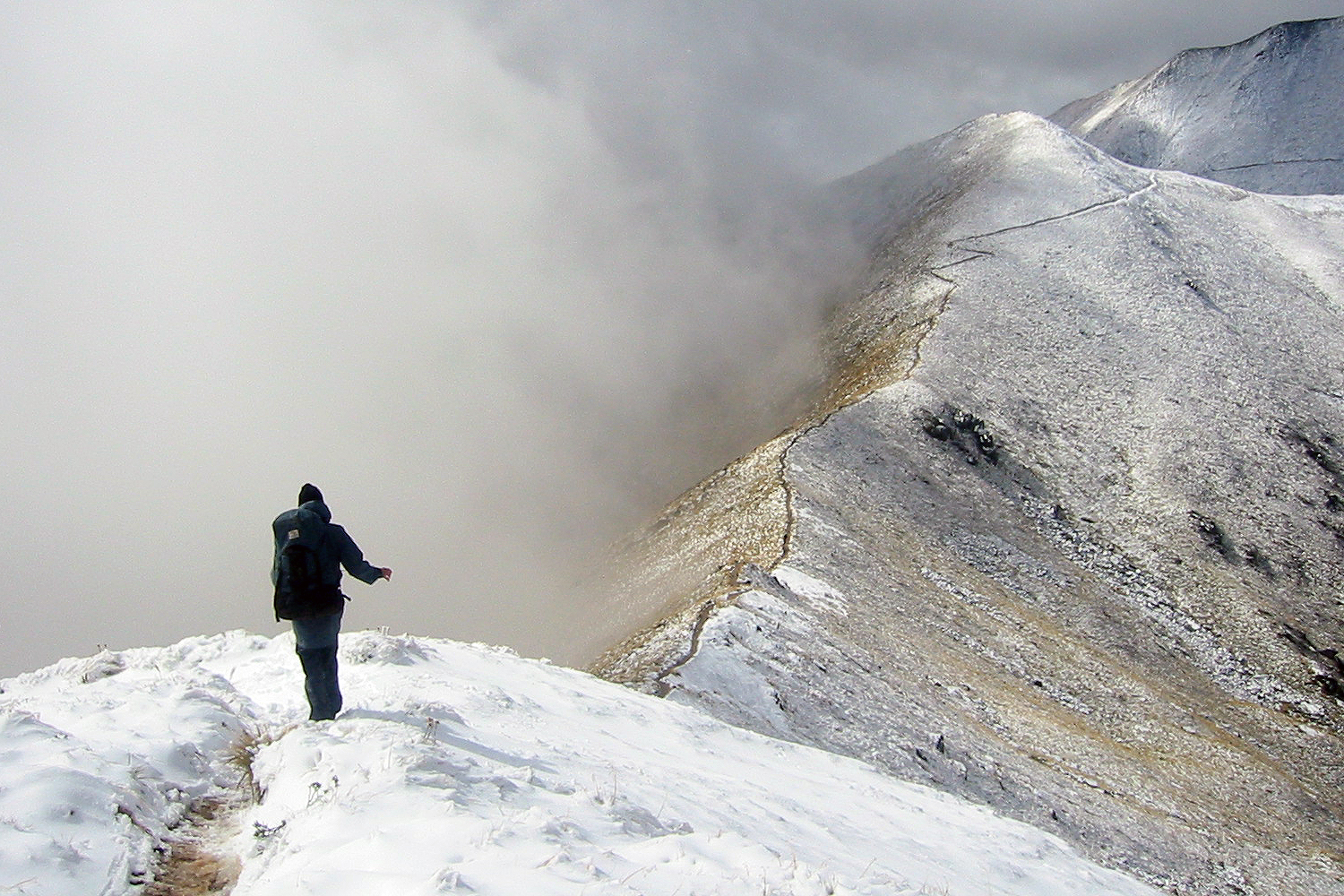 Kepler Track alpine ridgeline, New Zealand